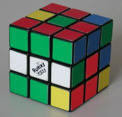 A scrambled Rubik's cube.